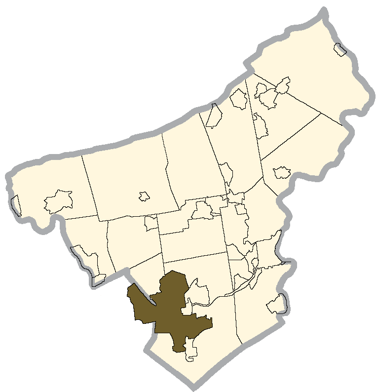 Bethlehem shaded on the map of Northampton county. Note that a part of Bethlehem is actually in Lehigh County.